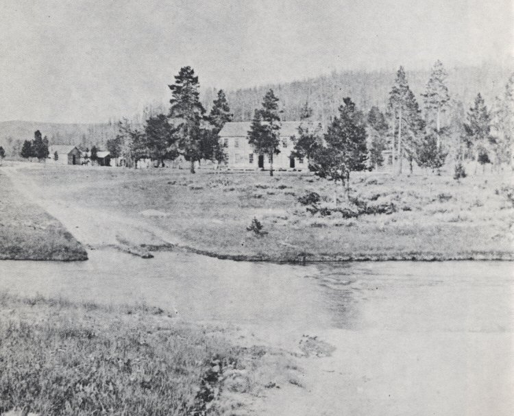 Photo of Marshall's Hotel, 1884, Lower Geyser Basin, Yellowstone National Park, Wyoming